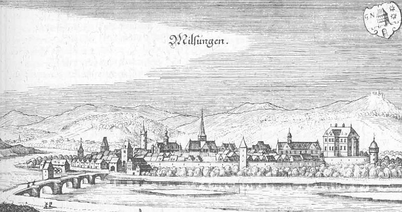 This is a scan of the historical document: Title: Melsungen - Topographia Hassiae language: german